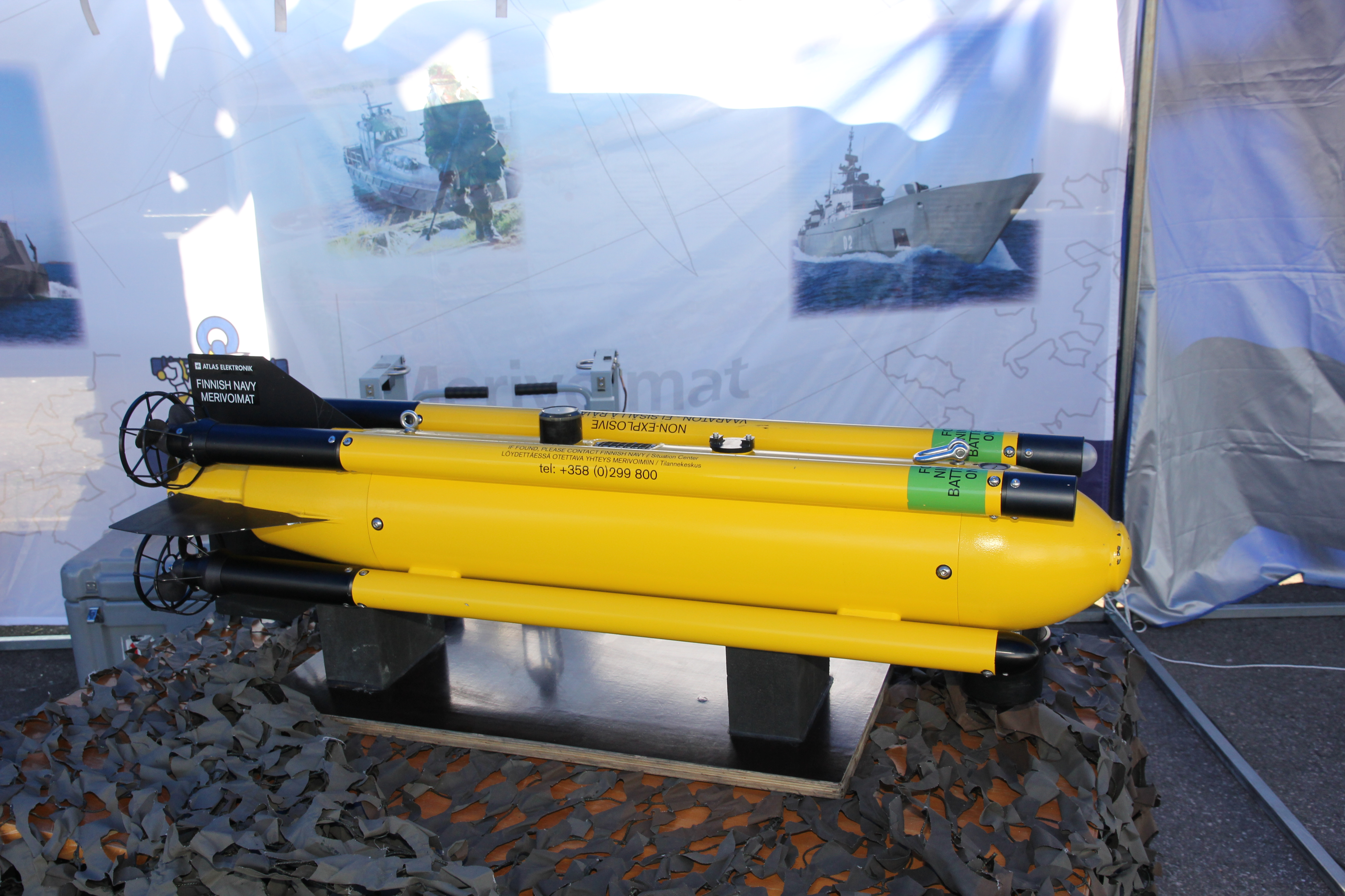 Atlas Elektronic Seafox-I unmanned underwater vehicle on display in Turku during Finnish Navy 2014 anniversary.